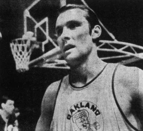 Professional basketball player Rick Barry at the 1969 ABA All-Star Game in Louisville, Kentucky.